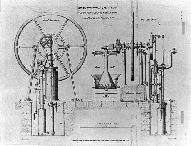 Scanned drawing of a steam engine of four horsepower by Messrs. Fenton, Murray & Wood, 1802. Applied to a mill for grinding bark